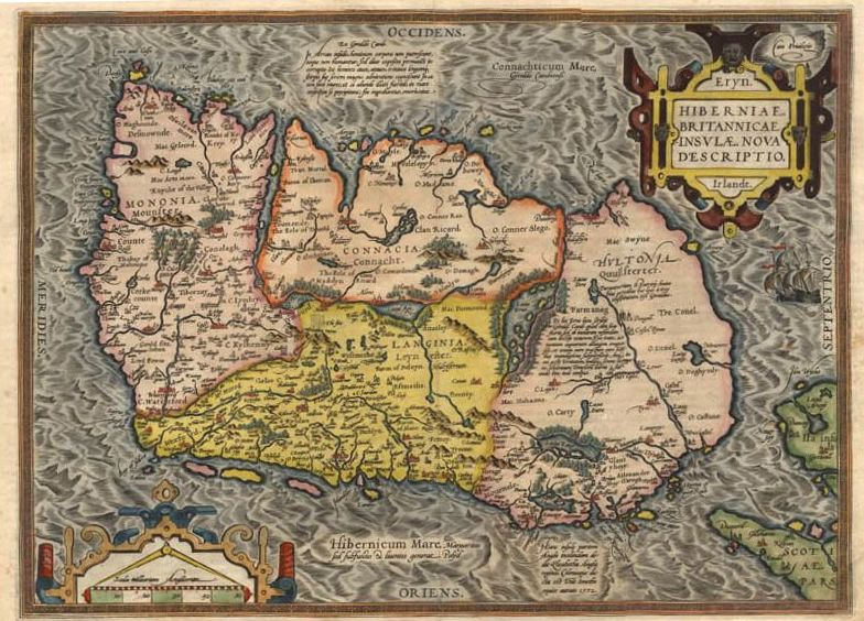 Map of Ireland, 1573